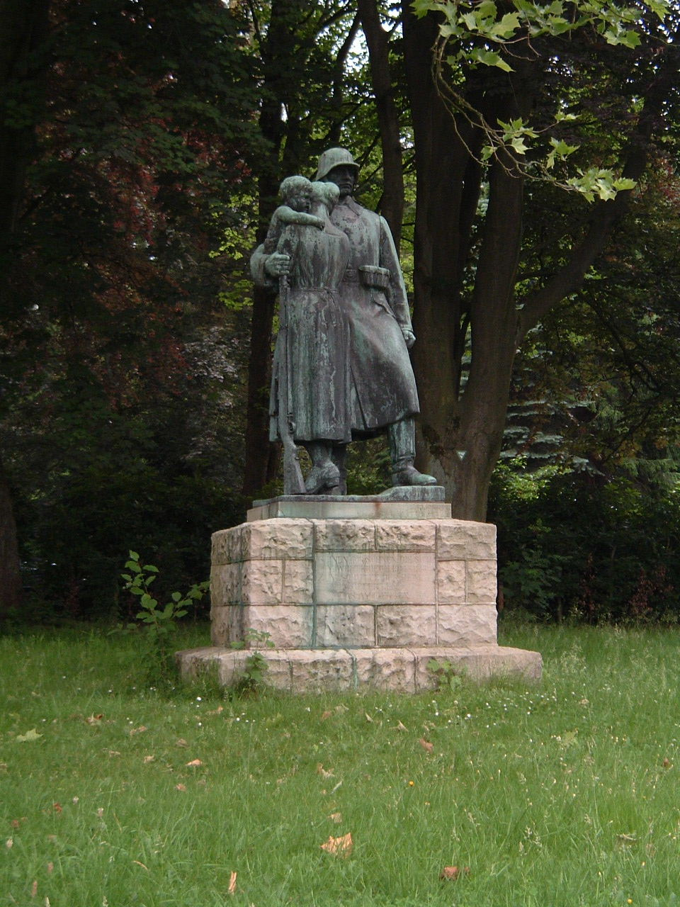 War memorial in town of Enger, District of Herford, North Rhine-Westphalia, Germany.